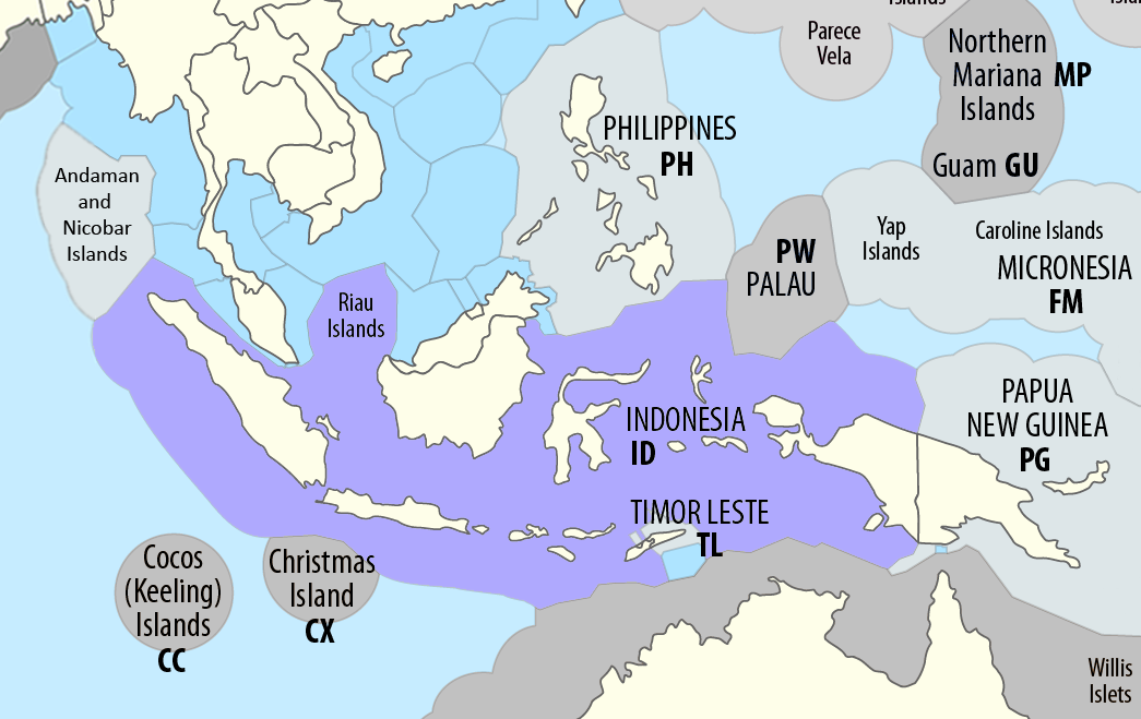 This map shows the exclusive economic zone (EEZ) of Indonesia. It is located in Southeast Asia between the Indian Ocean and the Pacific Ocean.